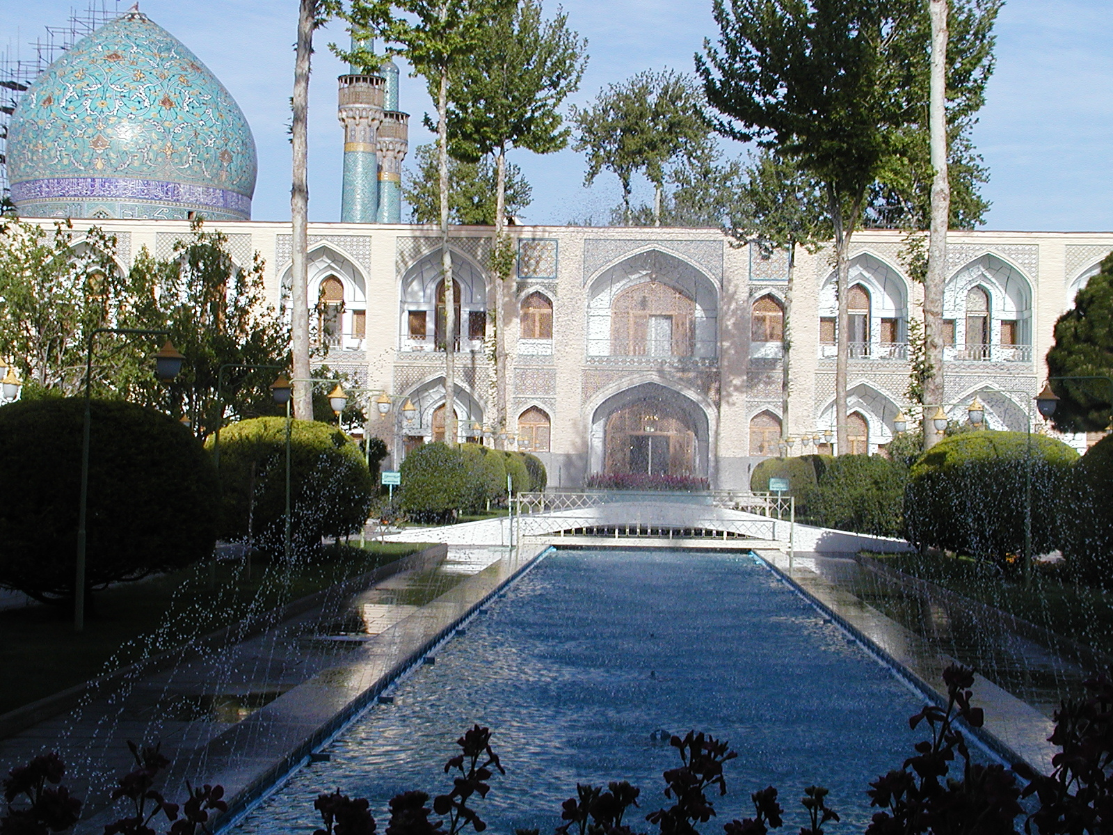 Esfahan (Iran) Abbasi Hotel